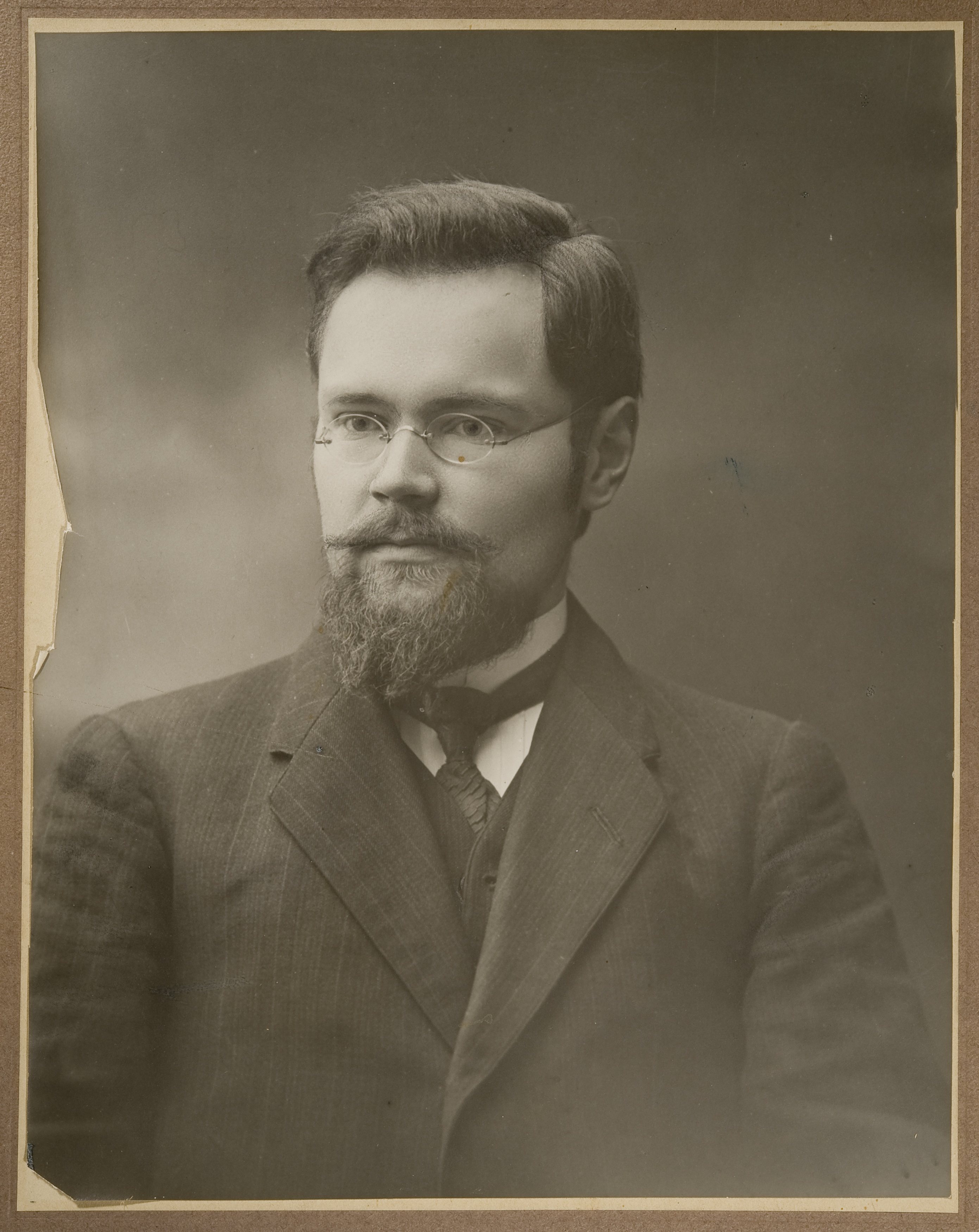 Photograph of the Finnish linguist and ethnograph Toivo I. Itkonen (1891–1968).